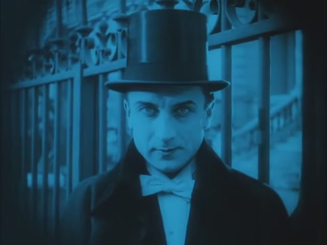 Image extracted from Le Brasier ardent, 1923 silent movie of France